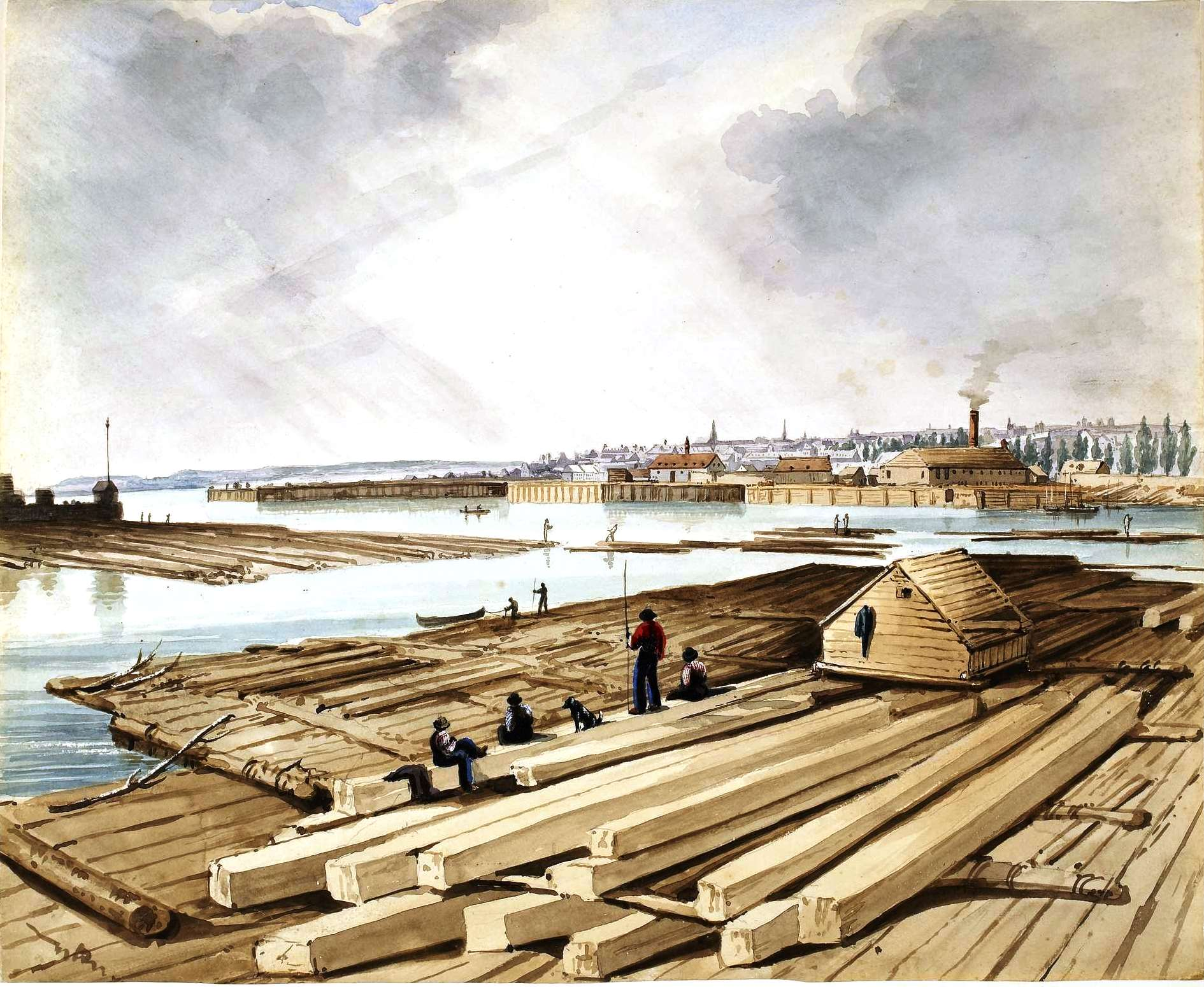 Quebec from St. Charles River, c. 1837-1838, watercolour over graphite with gum arabic on wove paper, 41.3 x 50.6 cm